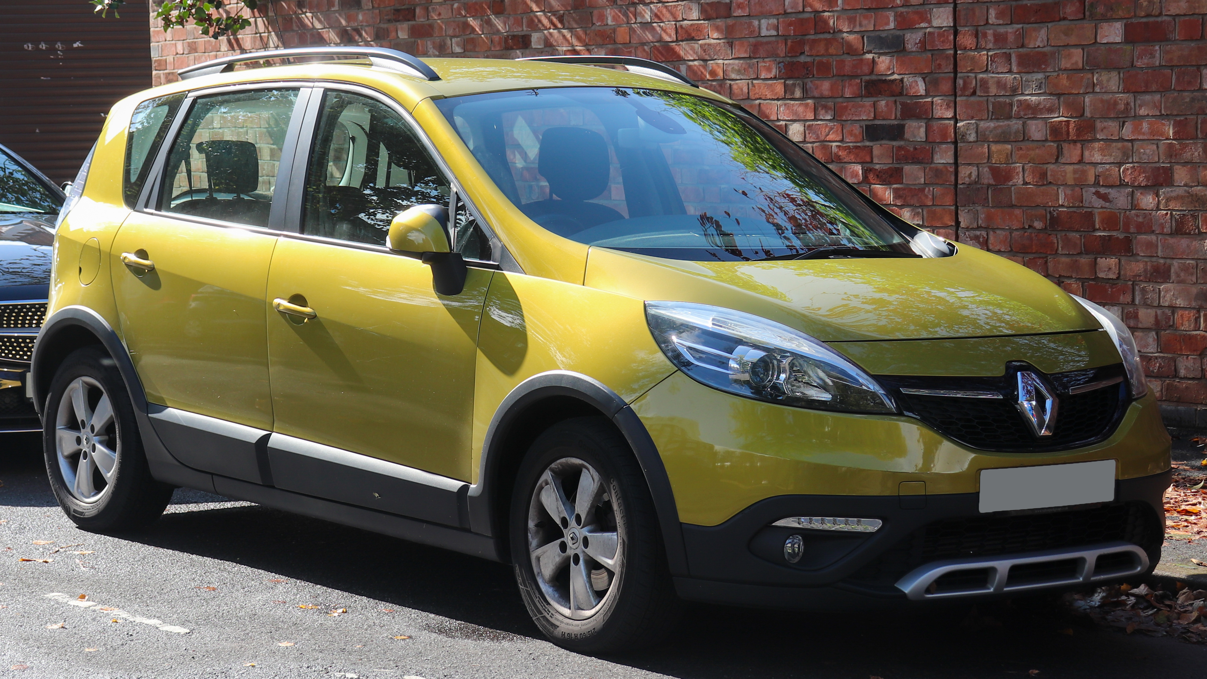 2013 Renault Scenic XMOD D-Que TT NRG 1.5 Taken in Leamington Spa